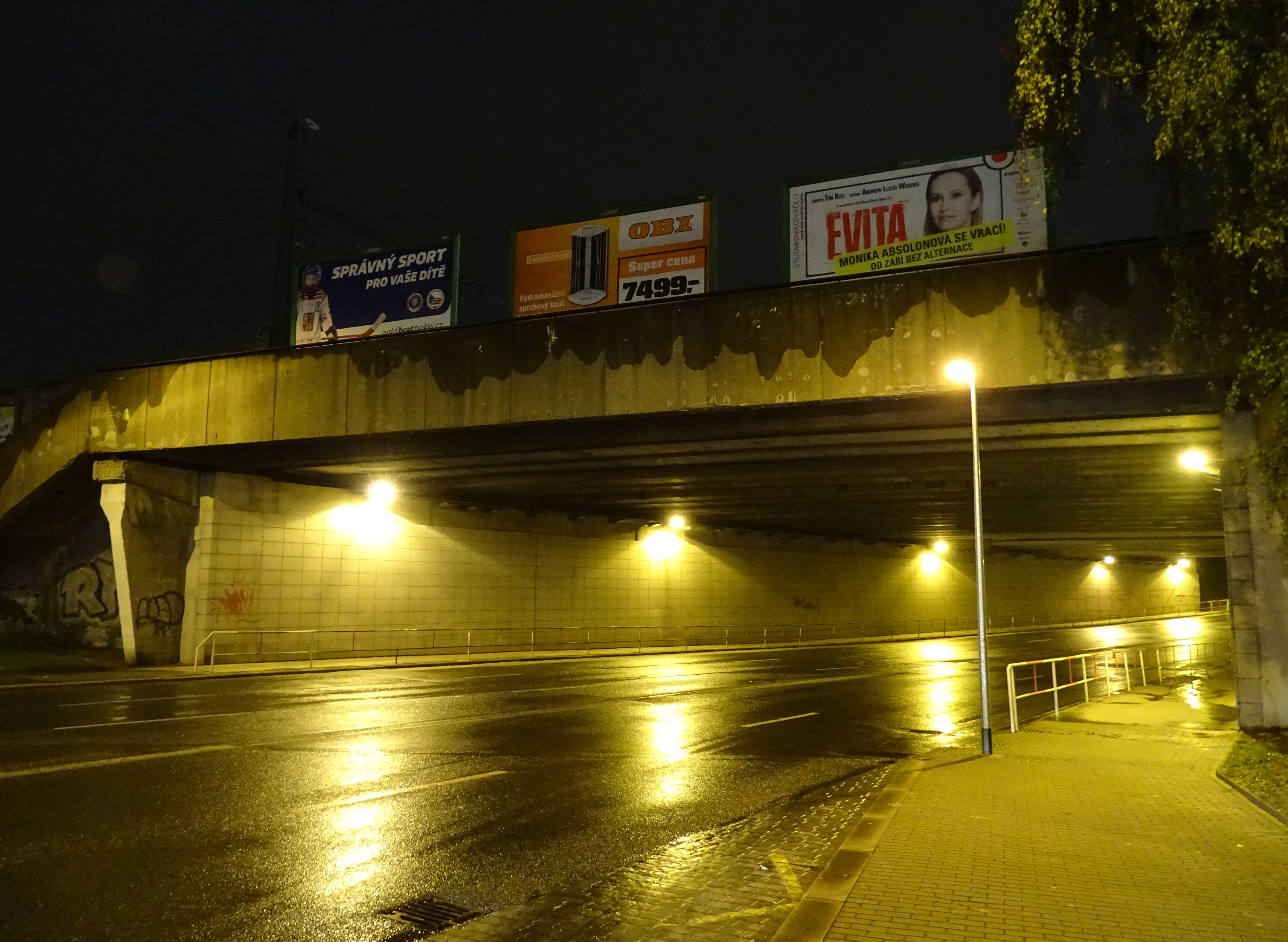 Prague-Vysočany, Czechia. K Žižkovu street, a railway bridge.